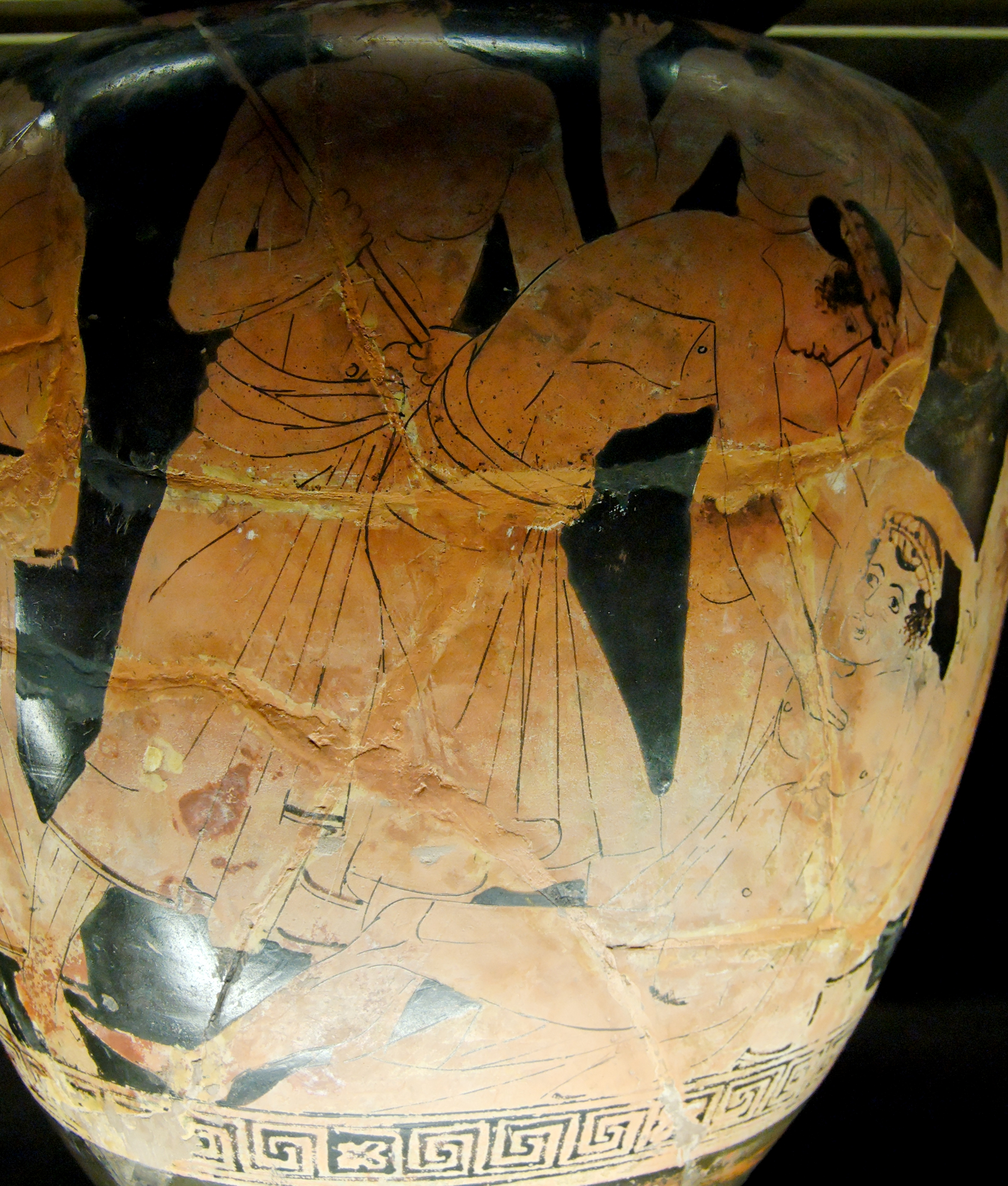 Philoctetes, wounded, is abandoned by the Greek expedition en route to Troy, detail of an Attic red-figure stamnos, ca. 460 BC.